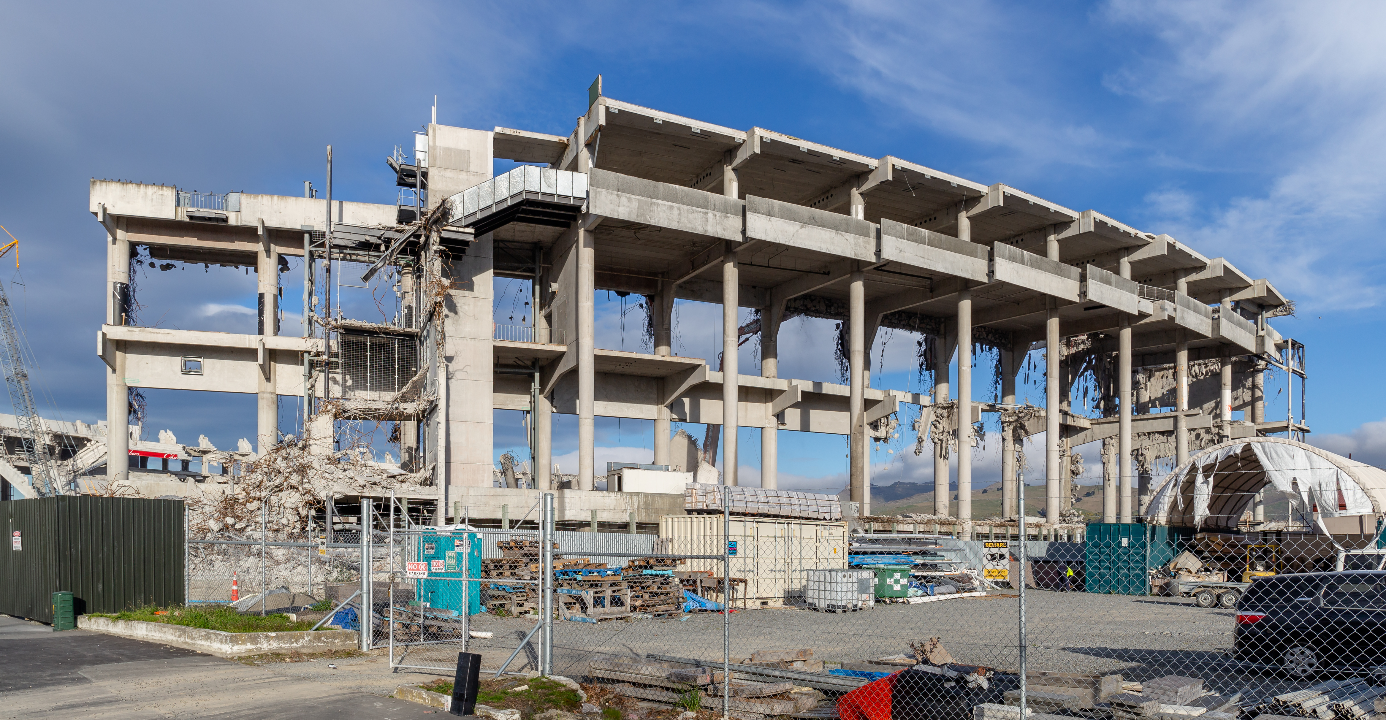 Lancaster Park during demolition, Christchurch, New Zealand